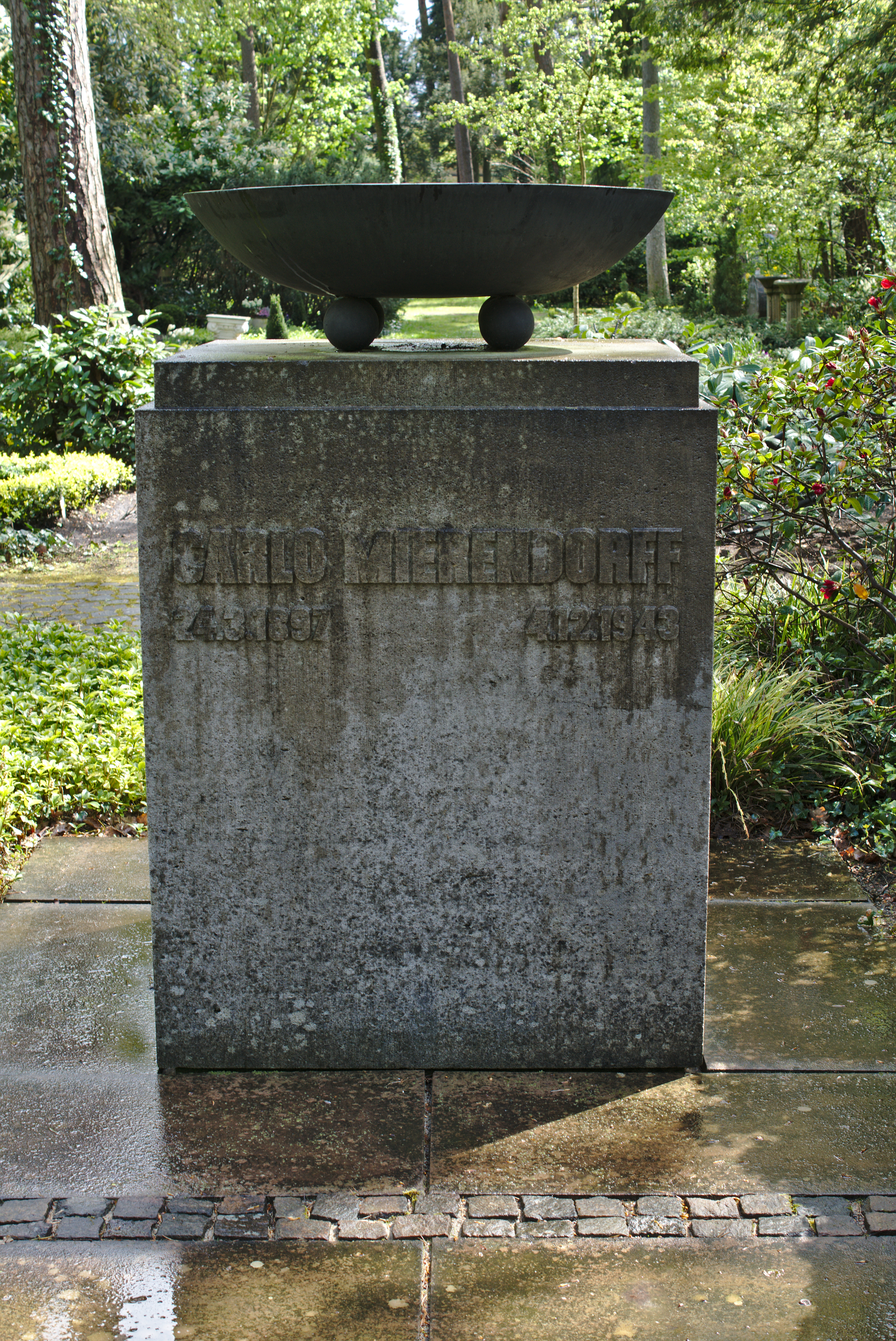 Grave of Carlo Mierendorff at Waldfriedhof Darmstadt